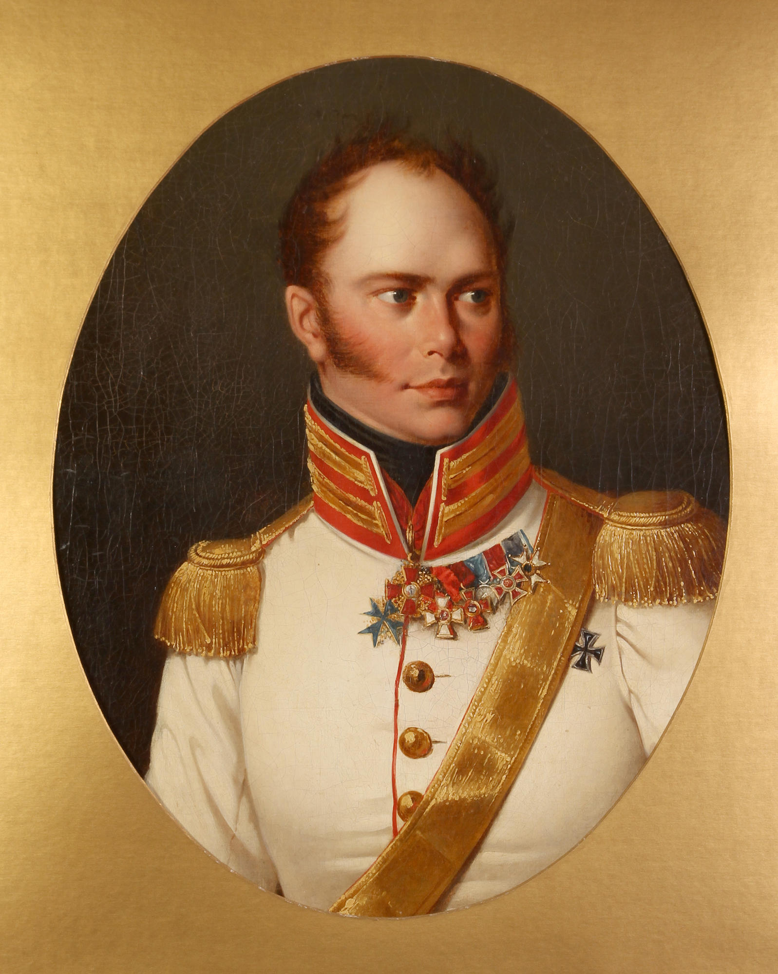 Portrait of russian colonel Ch.F. Soldaen ( Х.Ф. Сольдаен) by unknown artist. Moscow panorama-museum "Battle of Borodino".